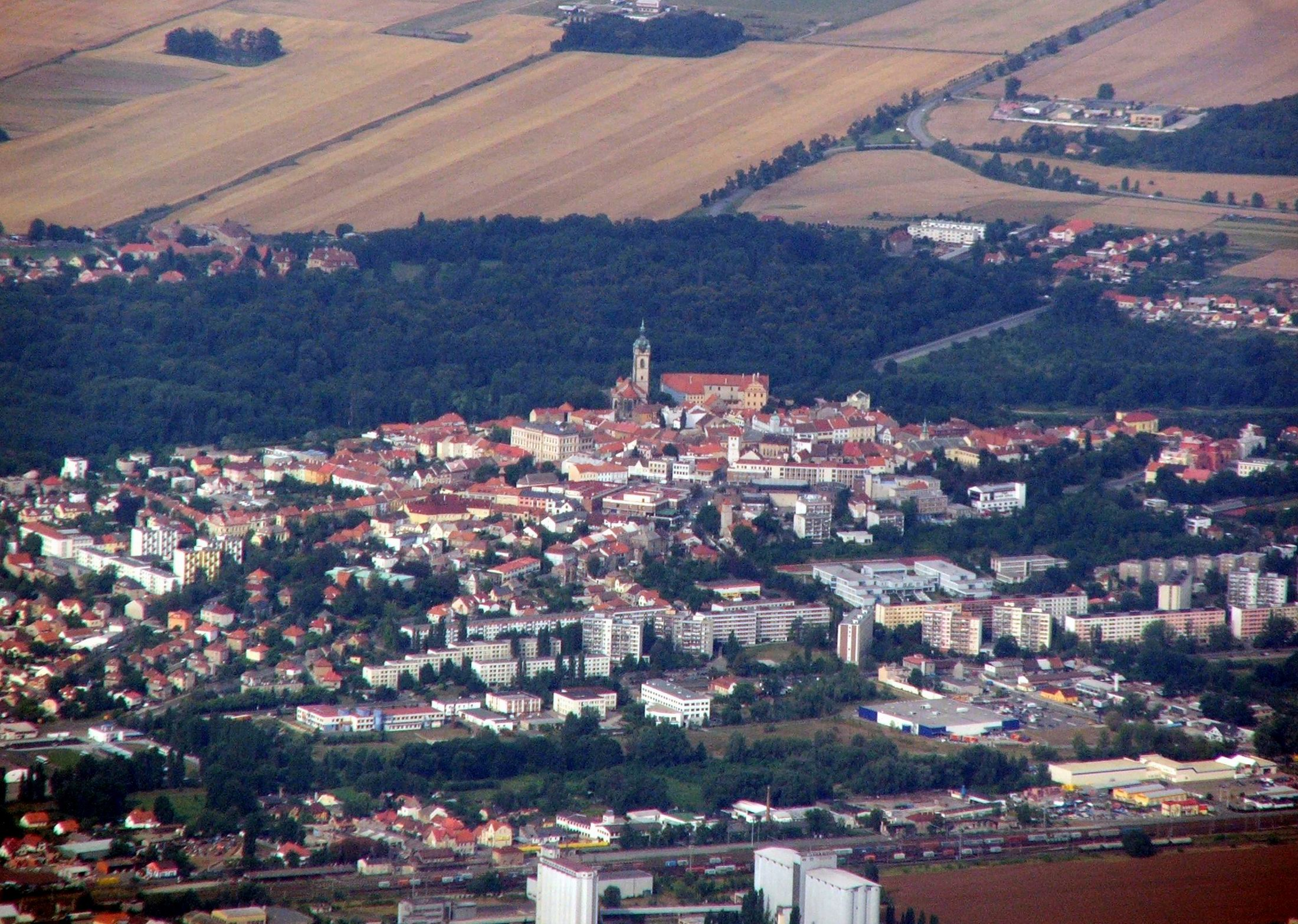 Aerial view of Mělník, Central Bohemia, Czechia